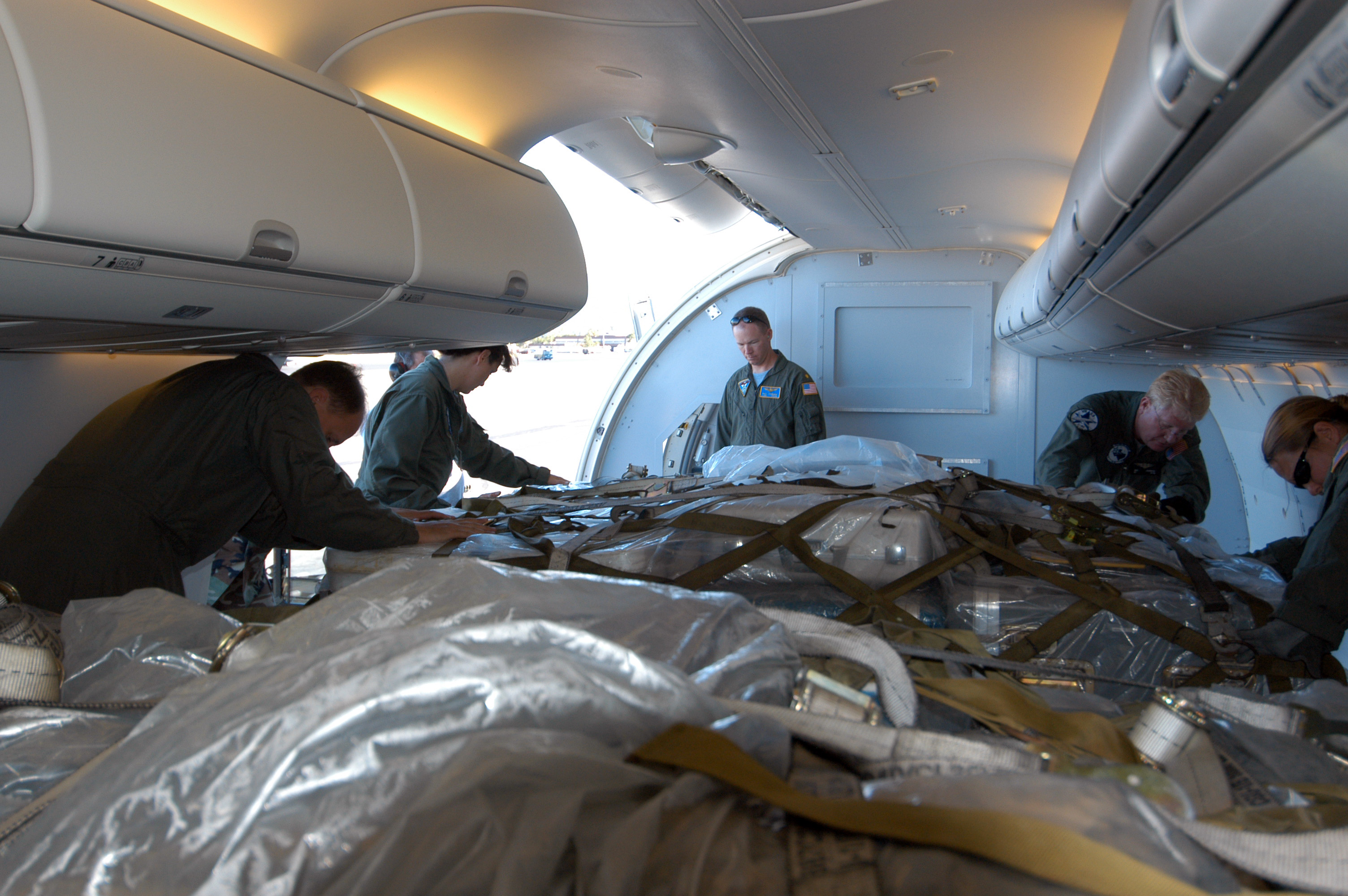 Hickam Air Force Base, Hawaii (Jan. 8, 2005) - Crew members load supplies onto a C-40A Clipper aircraft assigned to the “Lone Star Express” of Fleet Logistics Support Squadron Five Nine (VR-59). The supplies will be delivered to Utapao, Thailand, in support of Operation Unified Assistance, the humanitarian operation effort in the wake of the Tsunami that struck South East Asia. U.S. Navy photo by Photographer’s Mate 1st Class Greg Bingaman (RELEASED)